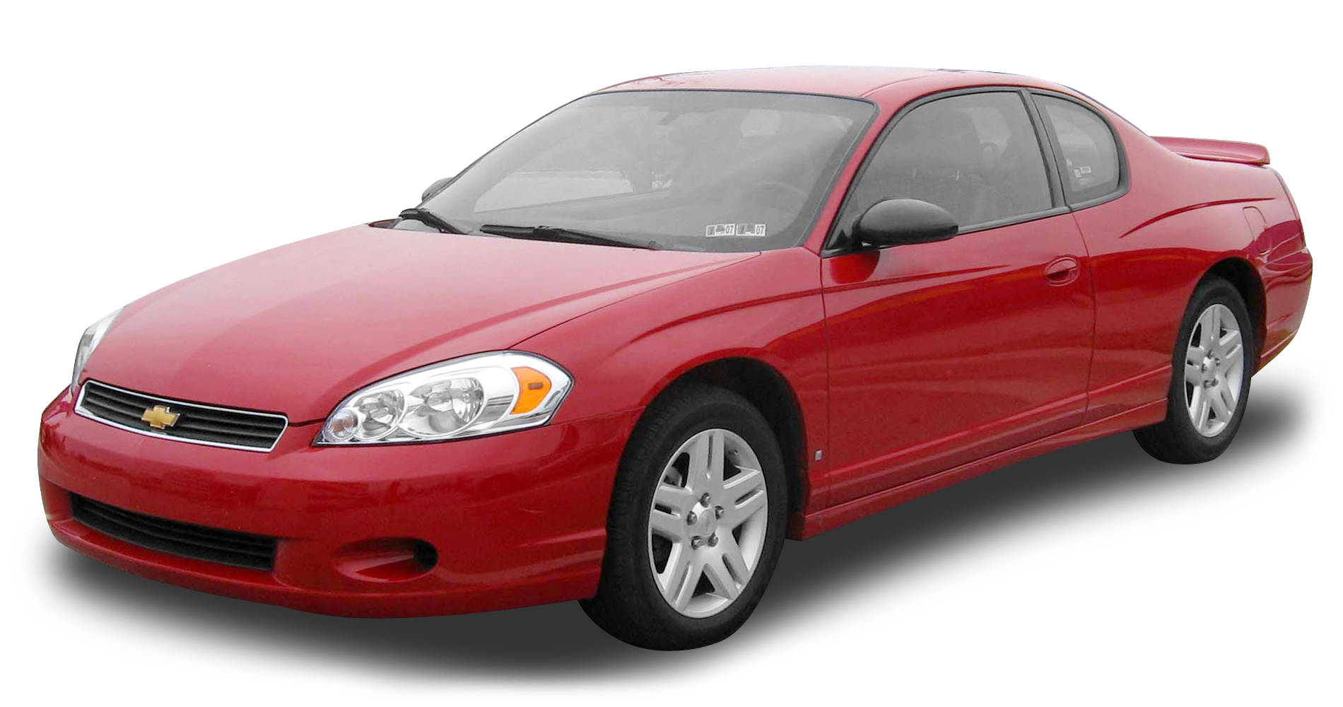 2006-2007 Chevrolet Monte Carlo photographed in USA.